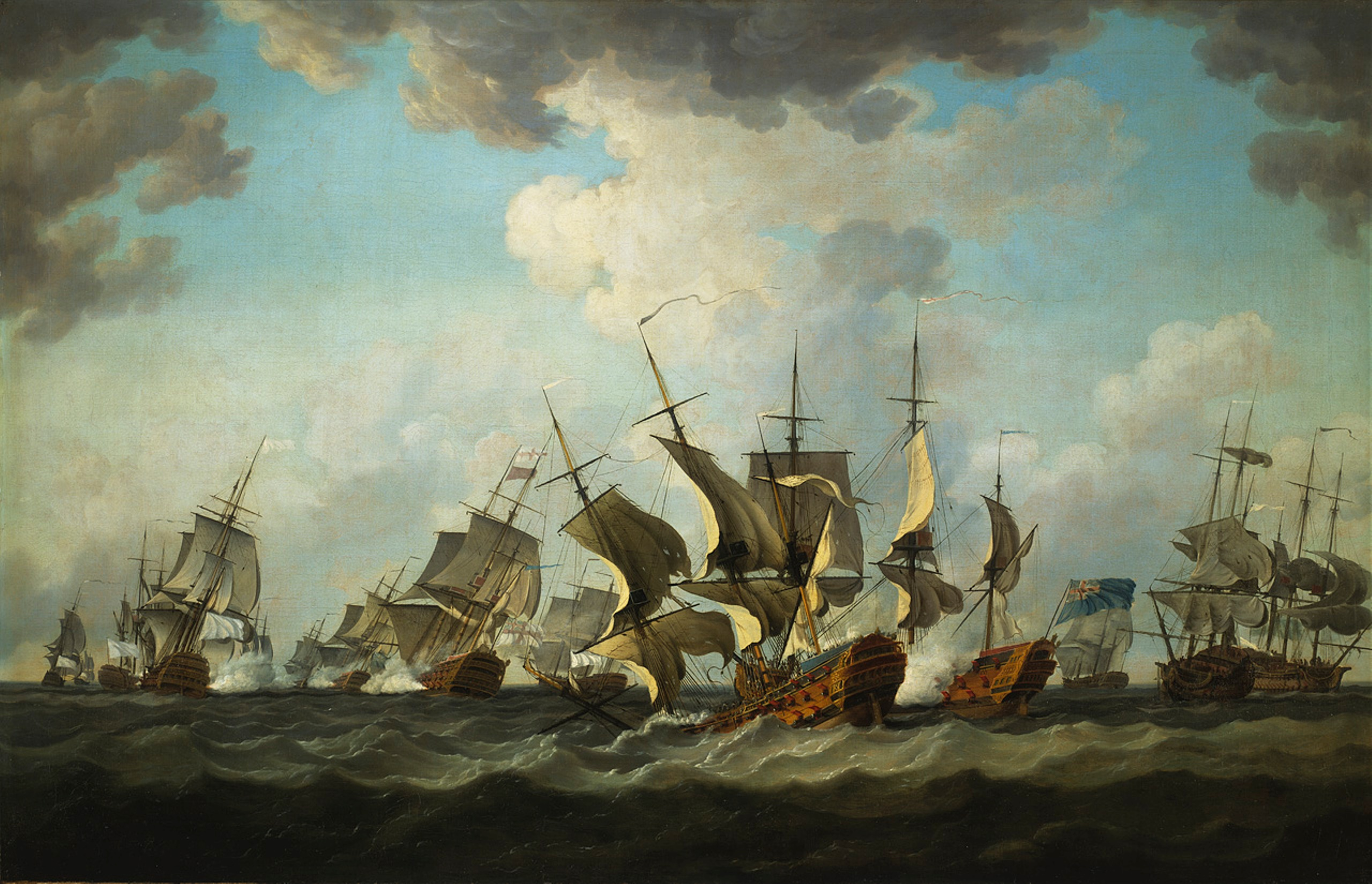 The Battle of Quiberon Bay, 20 November 1759.